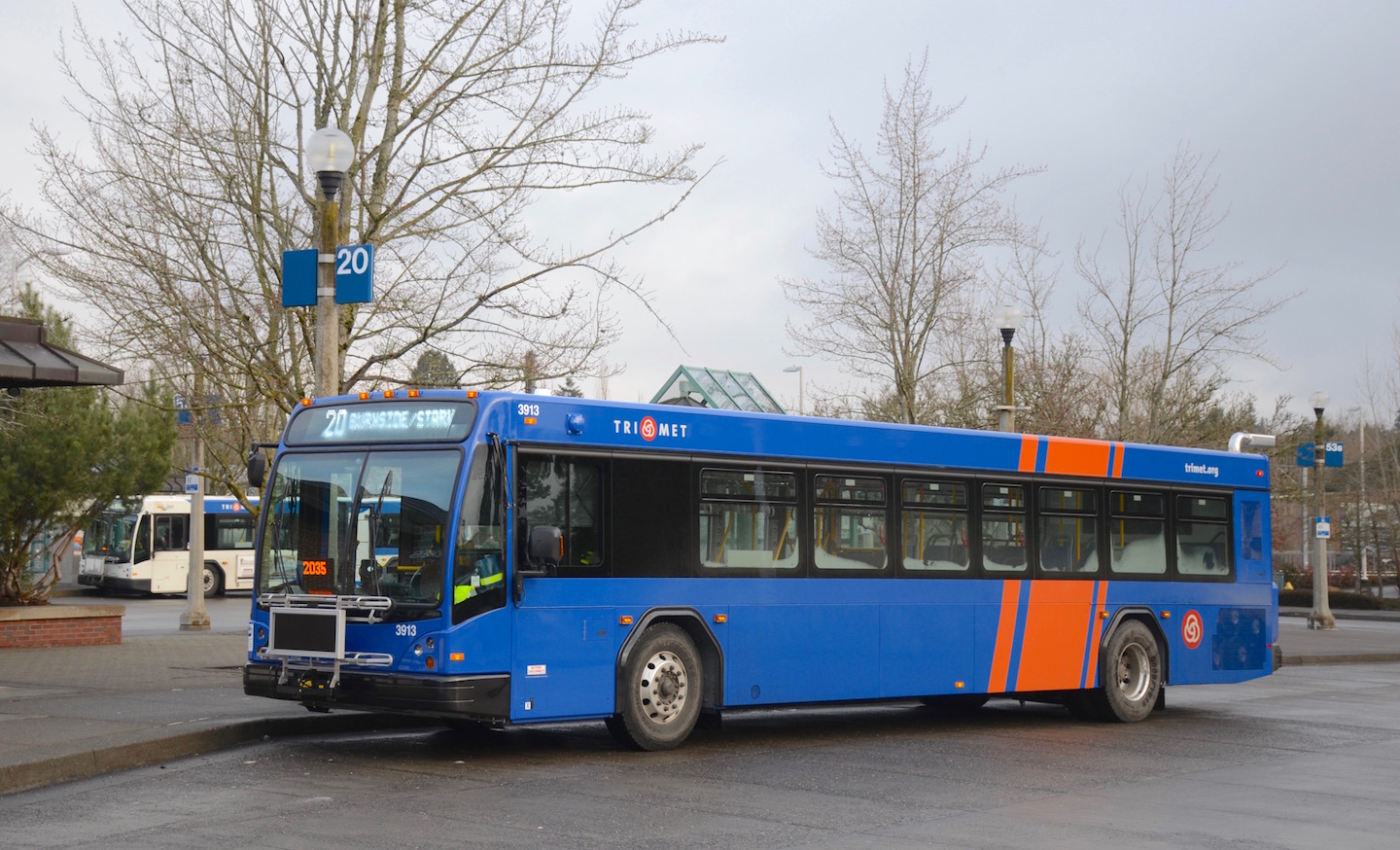 TriMet bus 3913, a 2018-built Gillig BRT-model bus, laying over at Beaverton Transit Center on line 20-Burnside/Stark on February 16, 2019. TriMet's 3900-series buses introduced a new color scheme for the agency's vehicles, and this date was the second day of service for any 3900s – and the first day with any in service during daylight hours, as the first buses to enter service only did so around sunset the day before, on late-night runs.